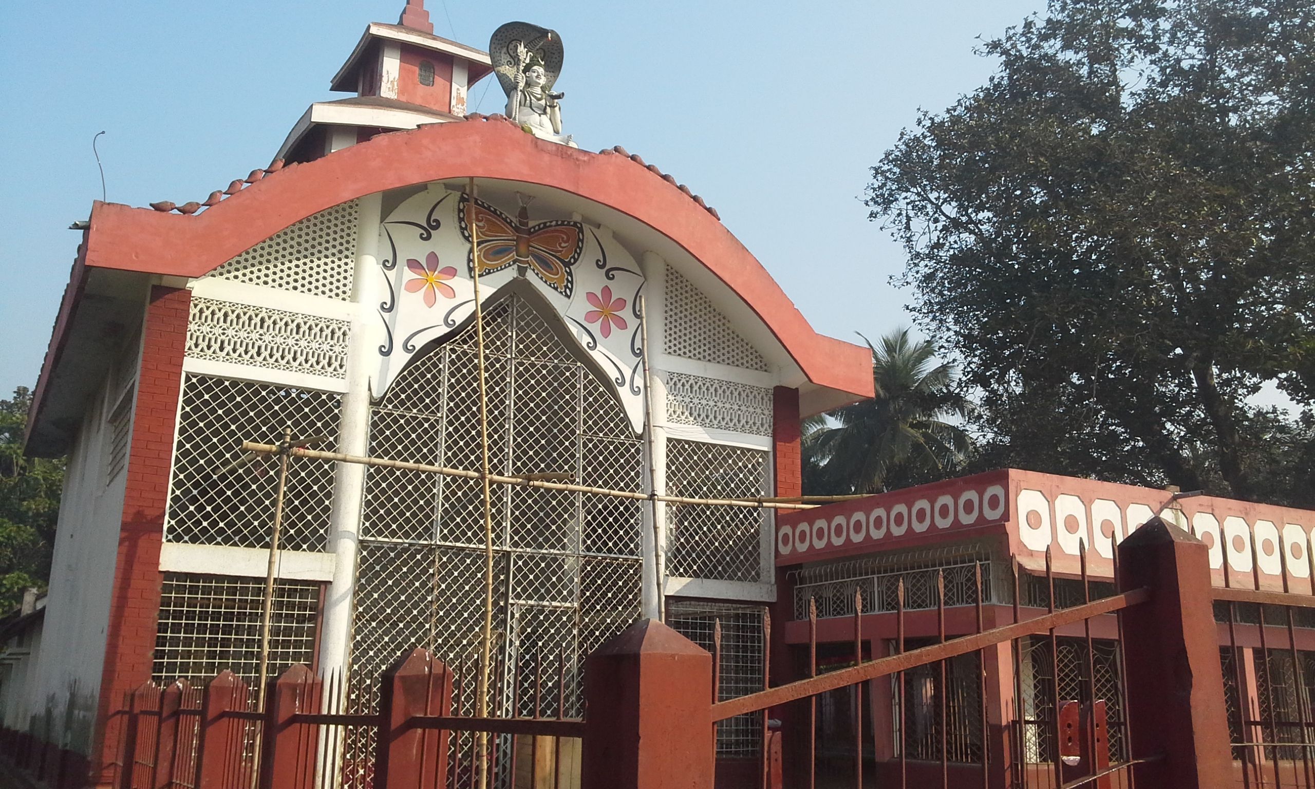 This holy temple is centered place in khoksa, Kushtia.